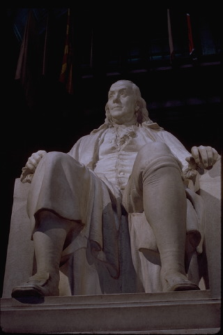 Benjamin Franklin Memorial in Philadelphia (Rotunda of the Franklin Institute)